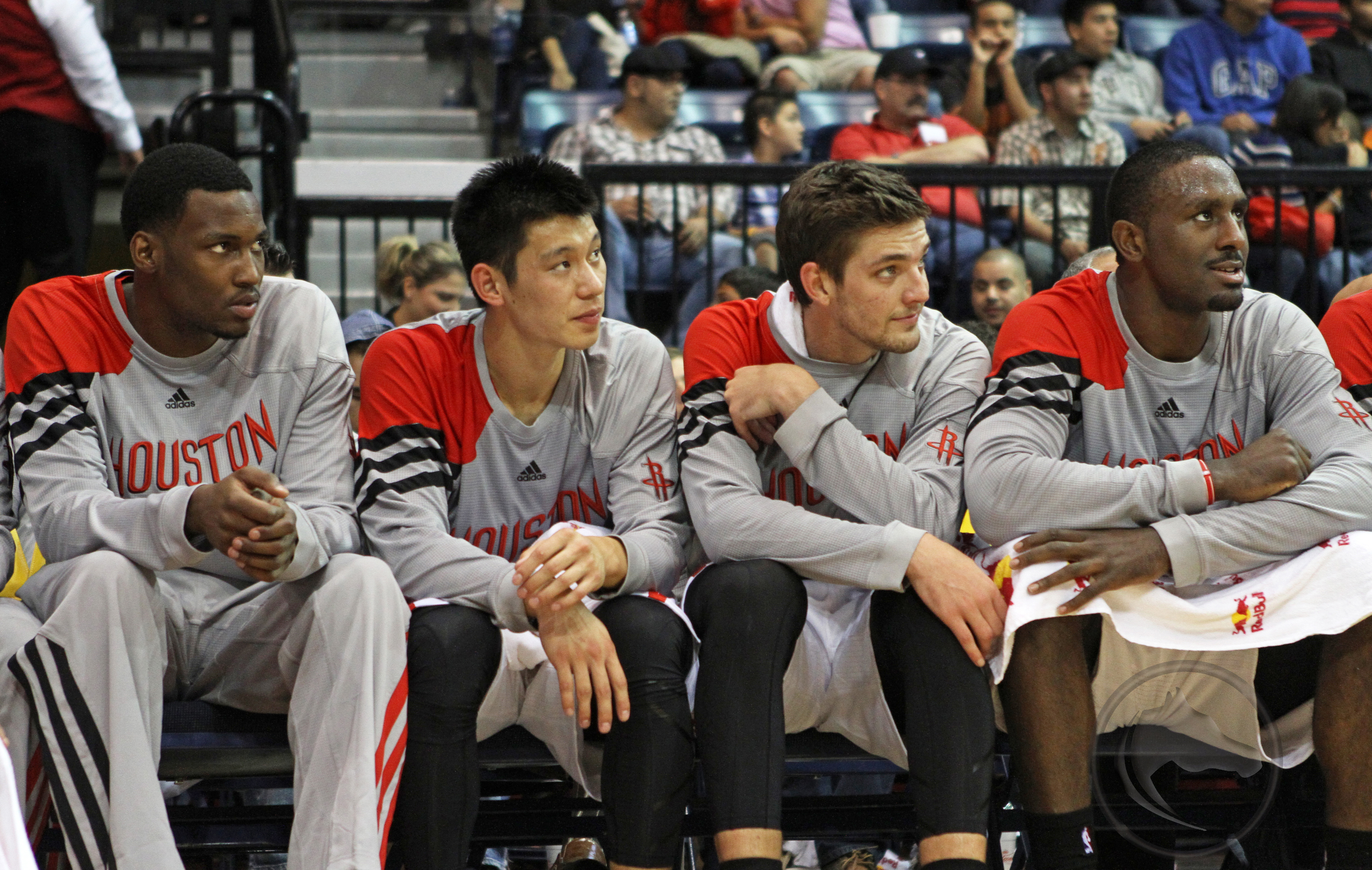 Houston Rockets bench in pre-season 2012. Left to right: Terrence Jones, Jeremy Lin, Chandler Parsons, and Patrick Patterson